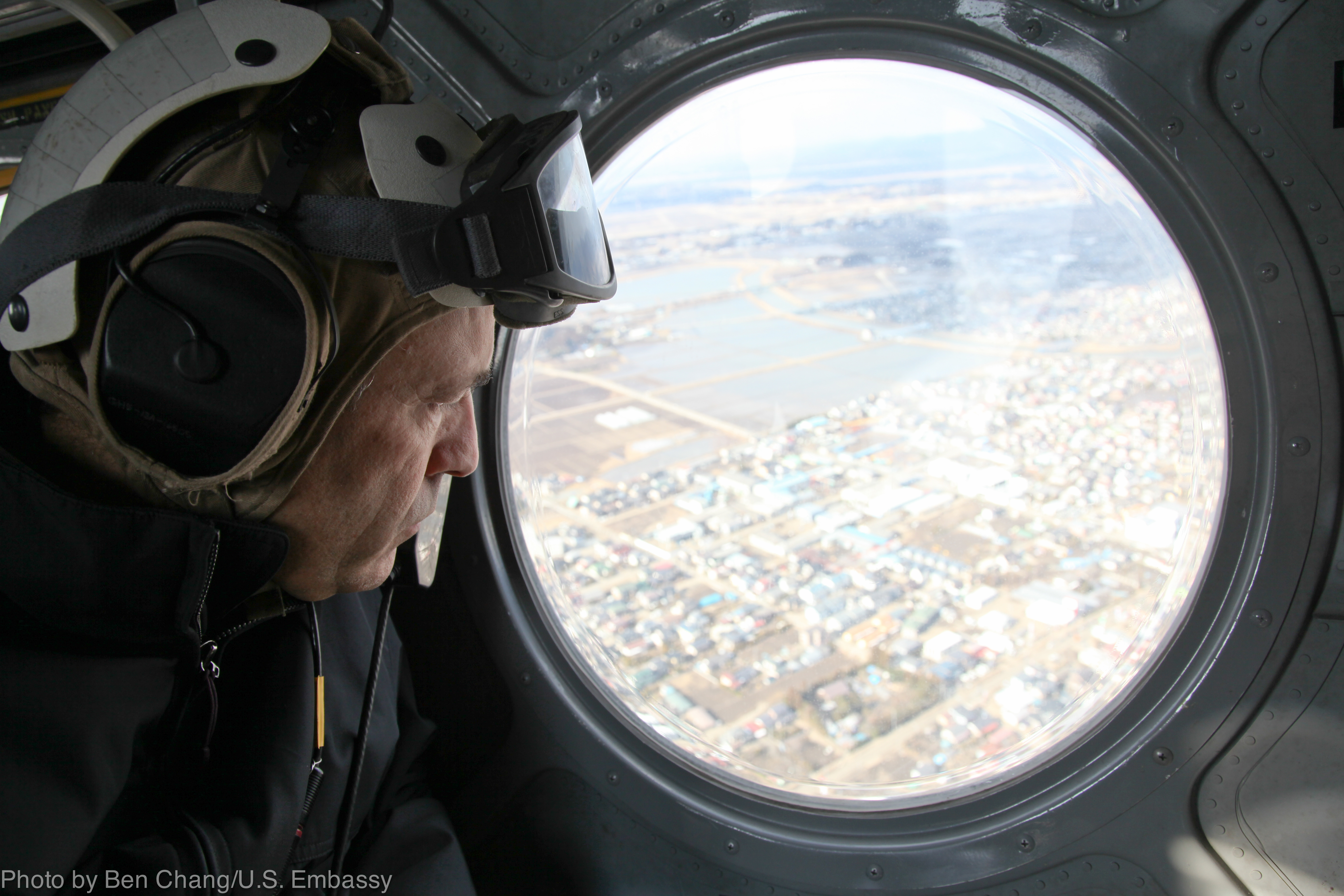 ISHINOMAKI, Japan (March 23, 2011) Ambassador Roos views tsunami-hit areas from a helicopter over the coast of Japan.